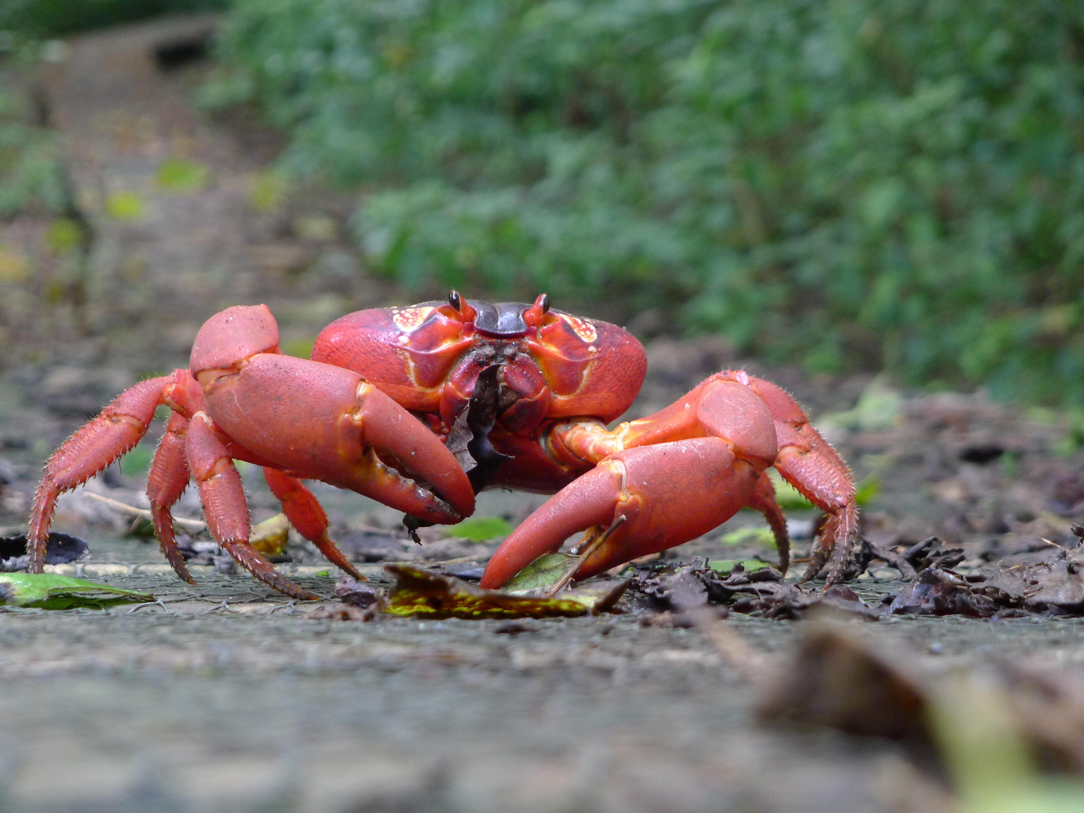 Margaret Knoll, Christmas Island, Australia, April 2011.